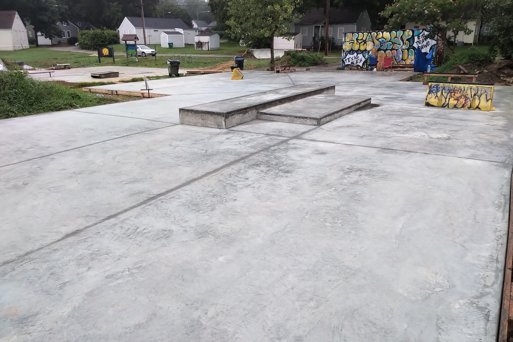 Photo of Texas Beach Skate Park, Richmond, Virginia, United States, taken at 0623 (EDT) Friday, 12 July 2019